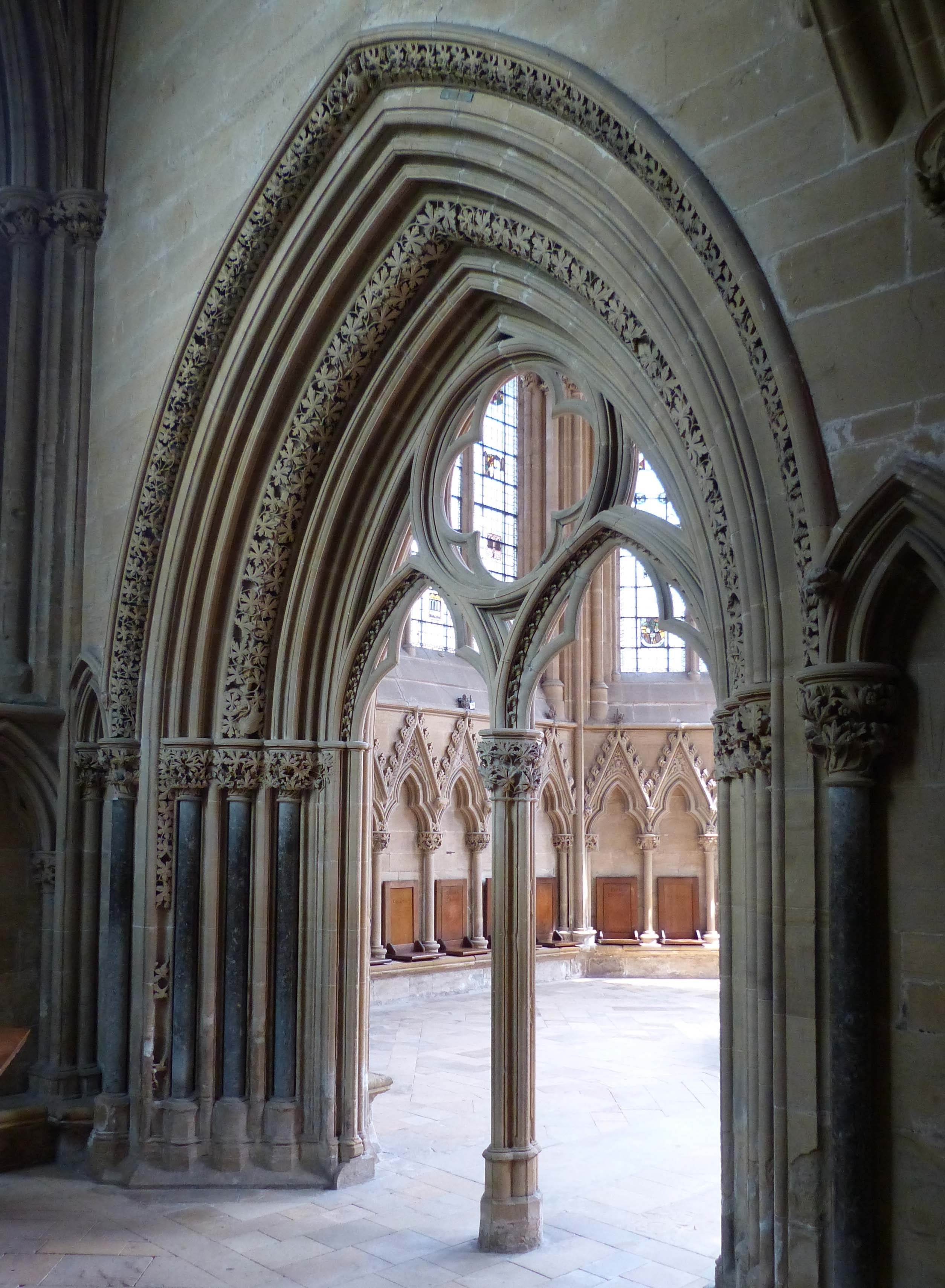 Portal of the Chapter House of Southwell Minster